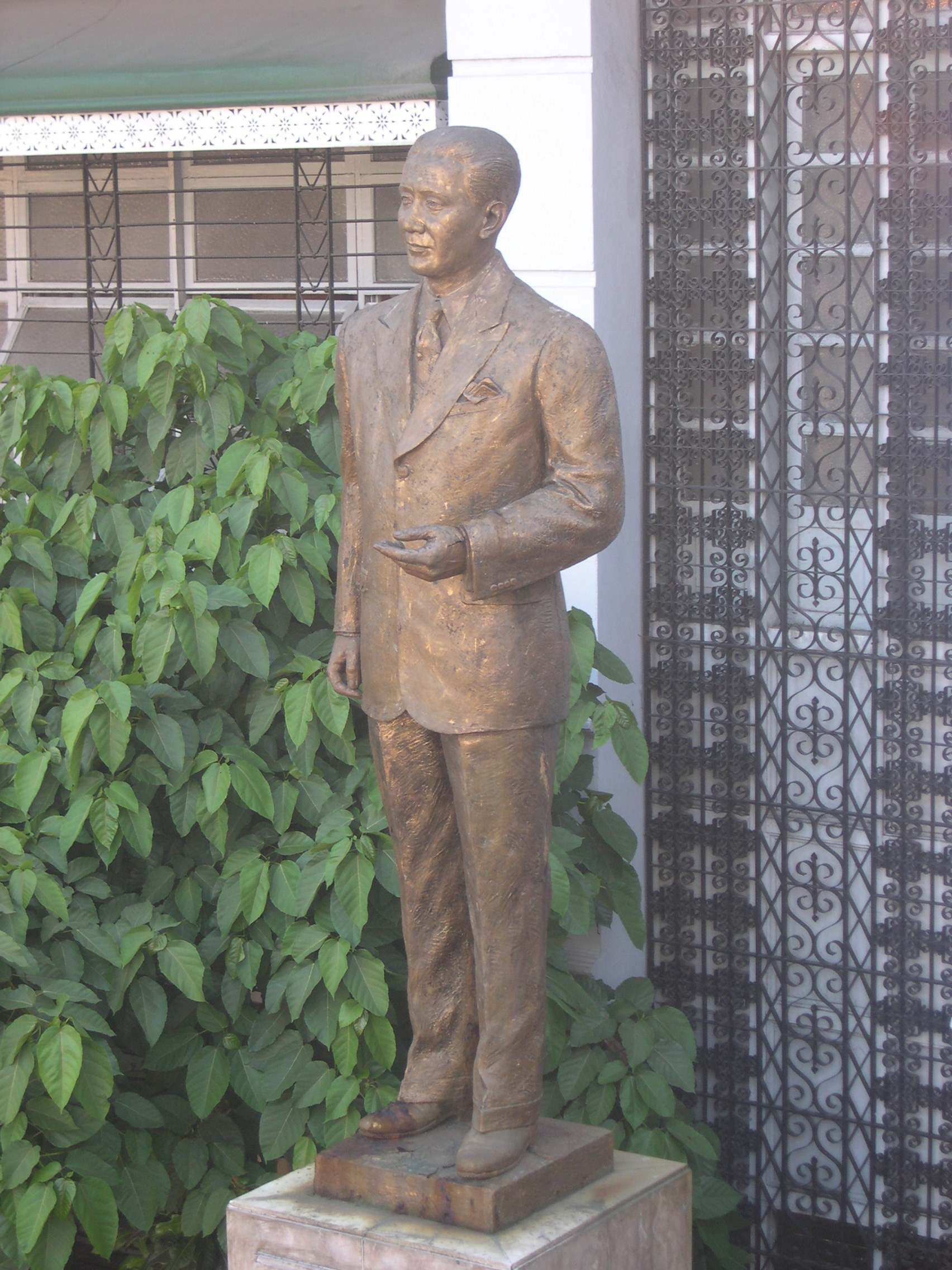 A statue of Sergio Osmeña, the 4th president of the Philippine, in front of the Osmeña museum in Cebu City Picture taken by Magalhães on March 28th 2006